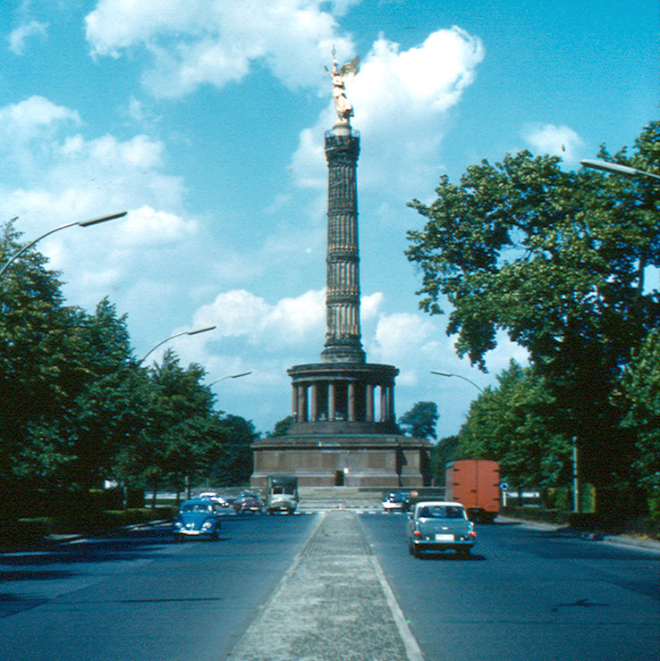 The Victory Column was designed in 1864 to commemorate Prussia's victory in the war against Denmark. By the time the monument was completed, Prussia had won wars against Austria (1866) and France (1870-1871), and Germany was unified. The Siegessäule is at the Strasse des 17. Juni, leading to the Brandenburg Gate. The street was named after the unsuccessful uprising in East Germany on June 17, 1953.